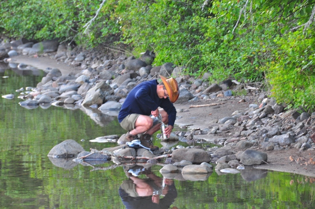 Taking Water Samples